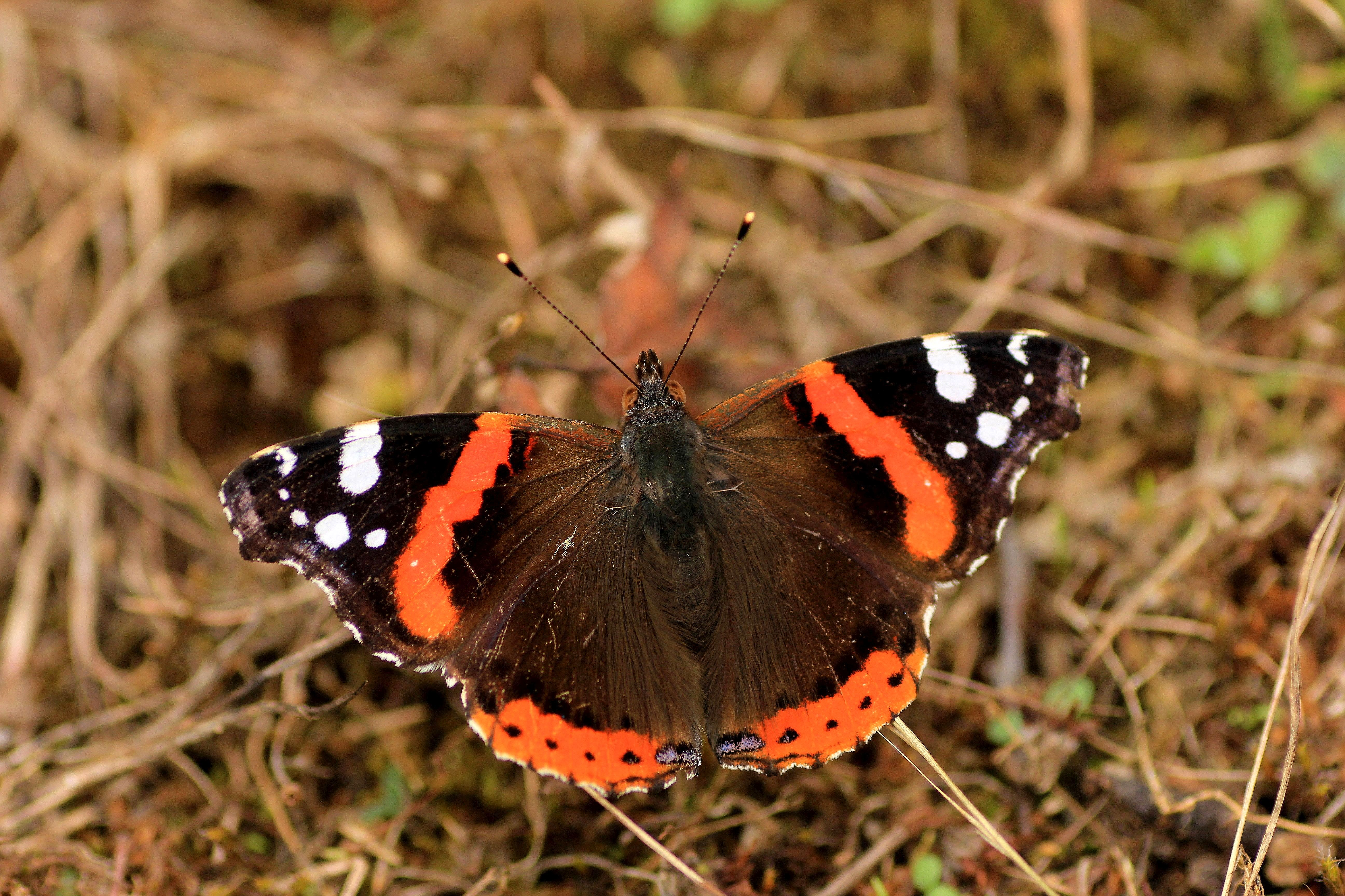 Red Admiral near Lerik Hirkan National Park